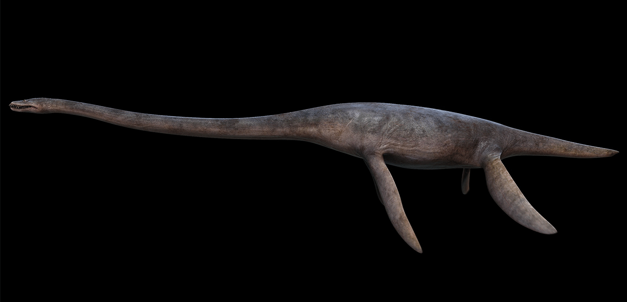 Styxosaurus swim cycle still frame